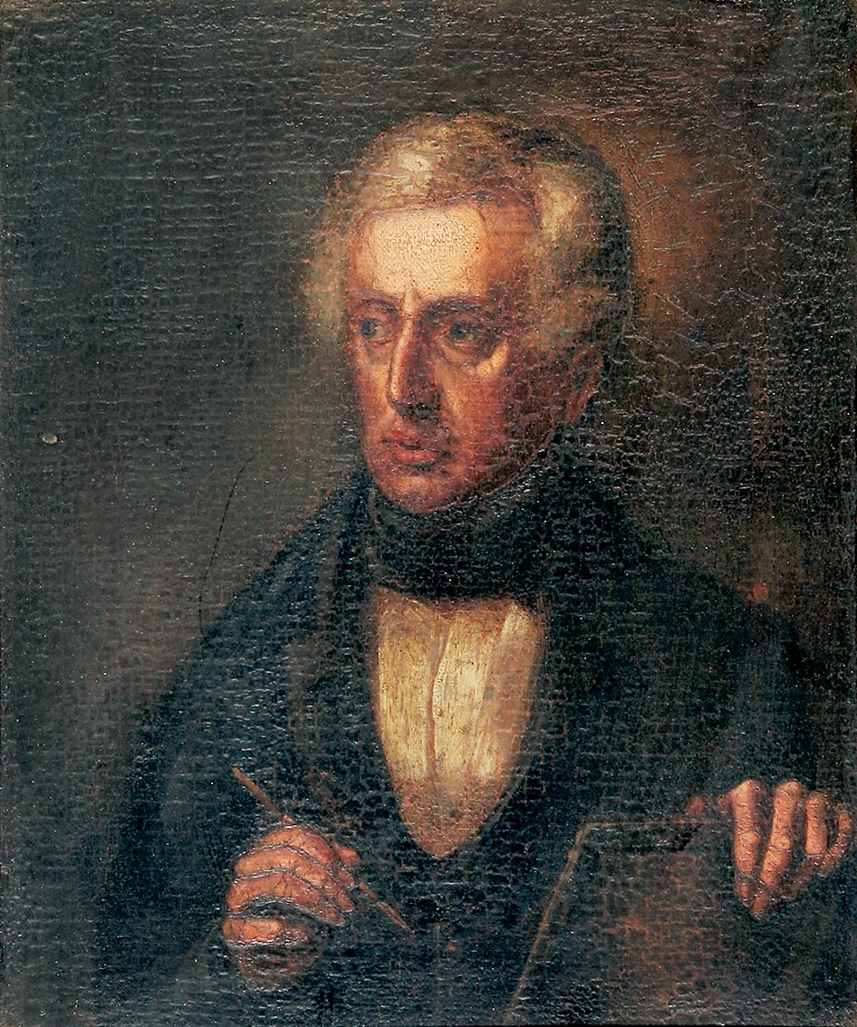 'Portrait of Henry Ninham (1796-1874)' by Anthony Sandys (1806-1883), oil on canvas; 12 1/8 in x 10 1/8 in